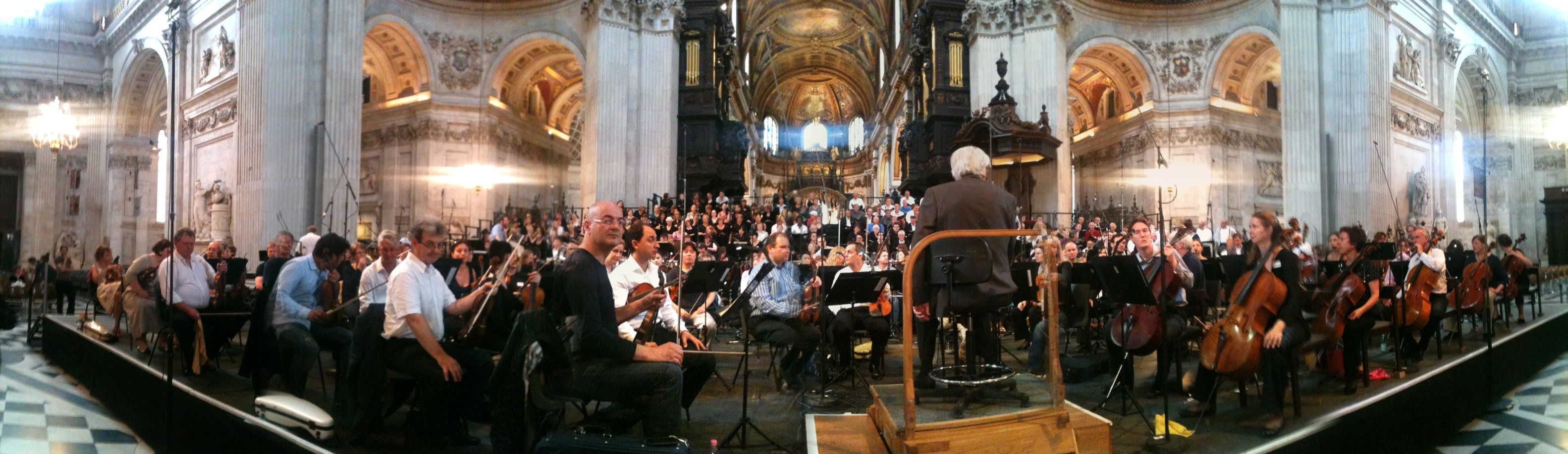 Sir Colin Davis in rehearsal at St Paul's Cathedral with the London Symphony Orchestra, the London Symphony Chorus, the London Philharmonic Choir and tenor Barry Banks. The performance of the Berlioz Requiem was broadcast live on BBC Radio 3.